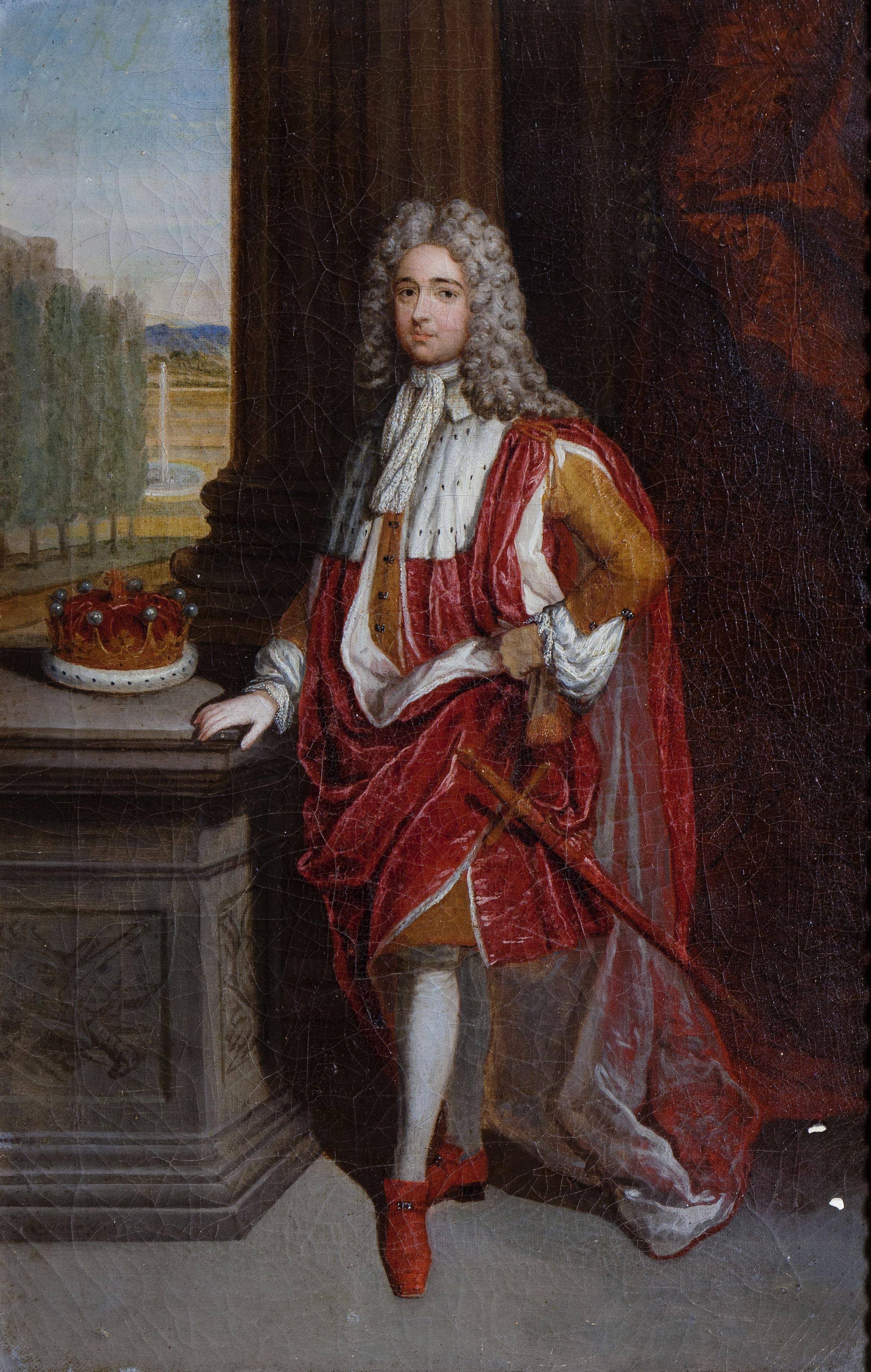 Frederik van Nassau-Zuylestein (1682-1738), graaf van Rochford